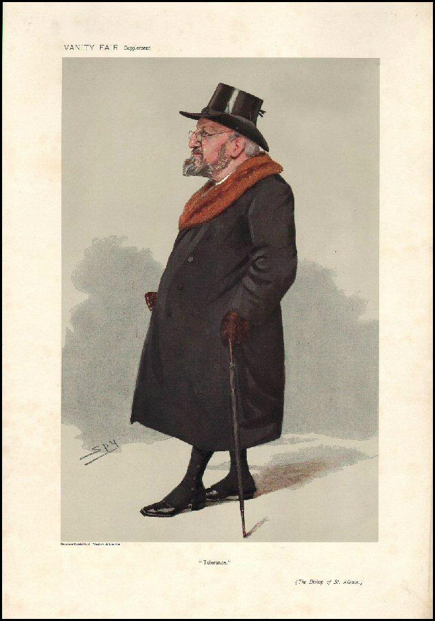 Men of the Day No.1033: Caricature of The Bishop of St Albans. Caption reads: "Tolerance"